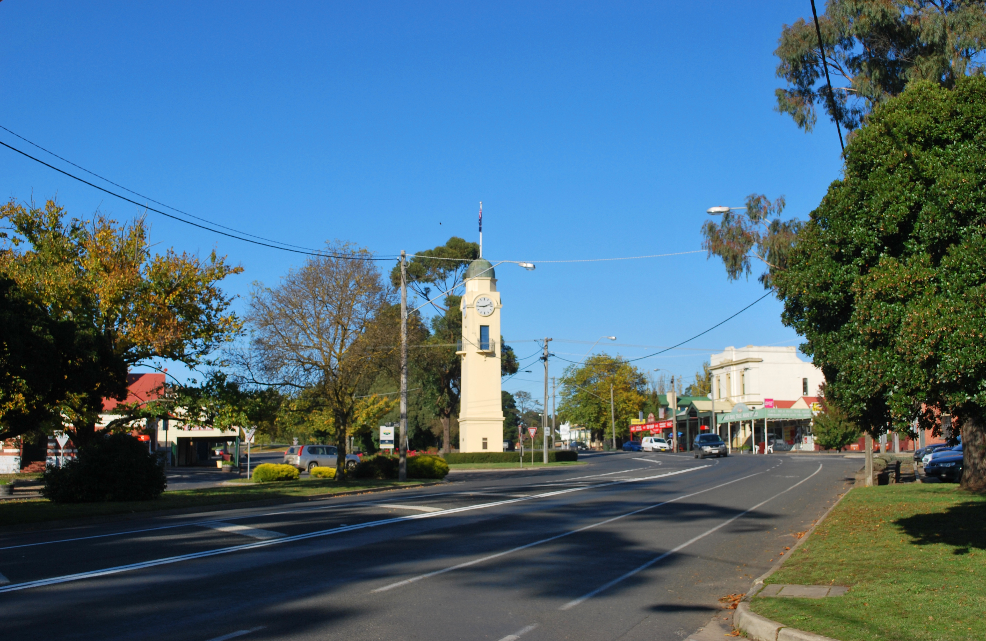 The town centre of Woodend, Victoria